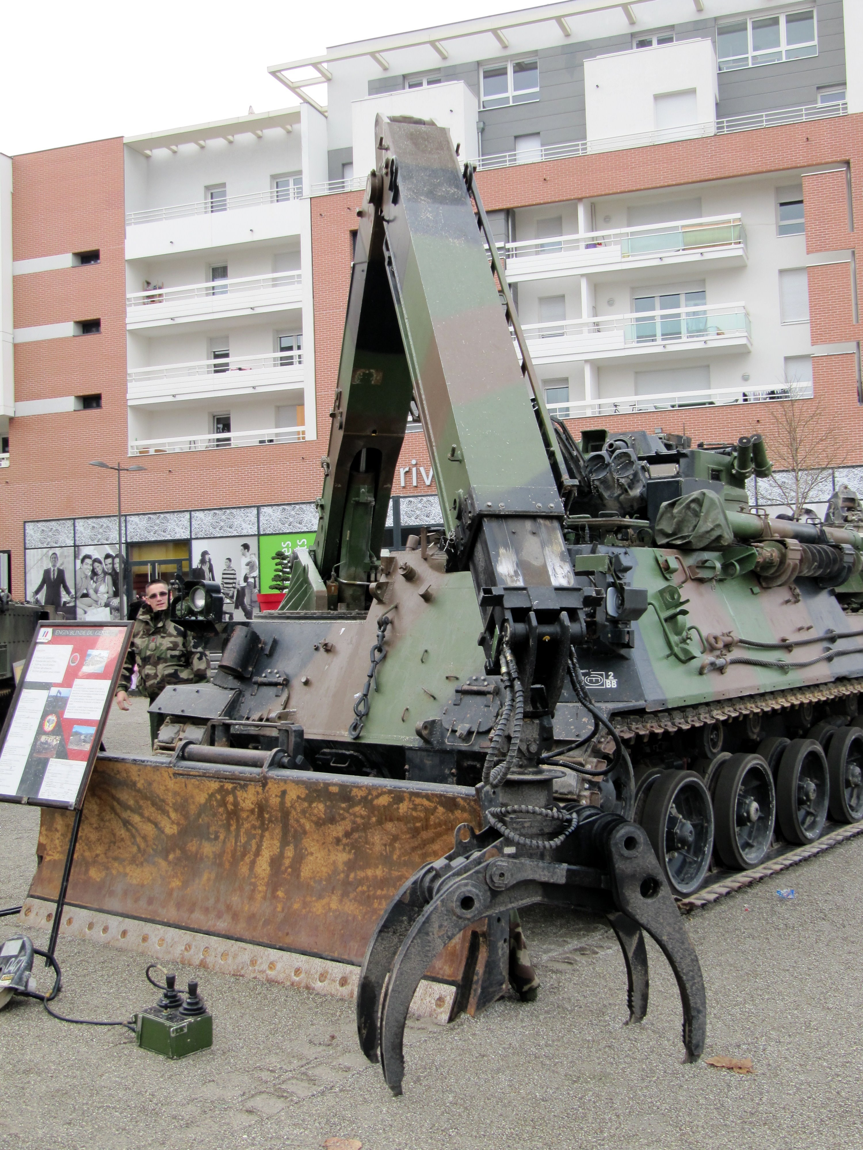 Engin Blindé du Génie.